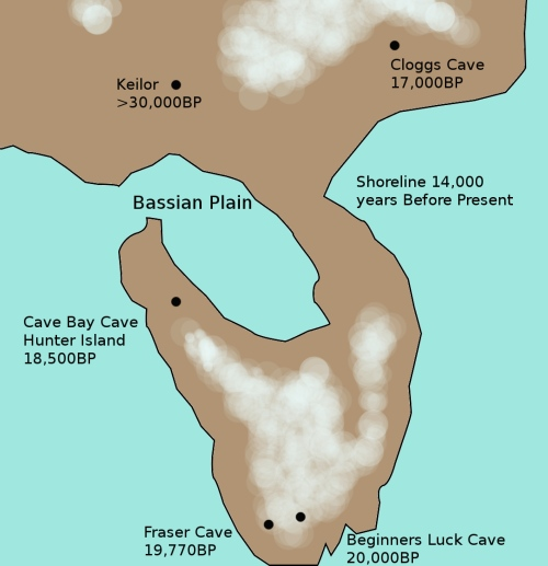 Victoria and Tasmania showing the Bassian Plain filling as Sea Levels rise about 14,000 years ago. Some of the major archaeological sites of Pleistocene human occupation are shown indicating that human migration to Tasmania occurred probably between 35,000BP and 20,000BP. By about 12,000 BP Tasmania was isolated by the rising sea level. Port Philip was flooded between 8000 and 6000BP, the event being recorded within the oral traditions of the Kulin nation where Melbourne now stands.